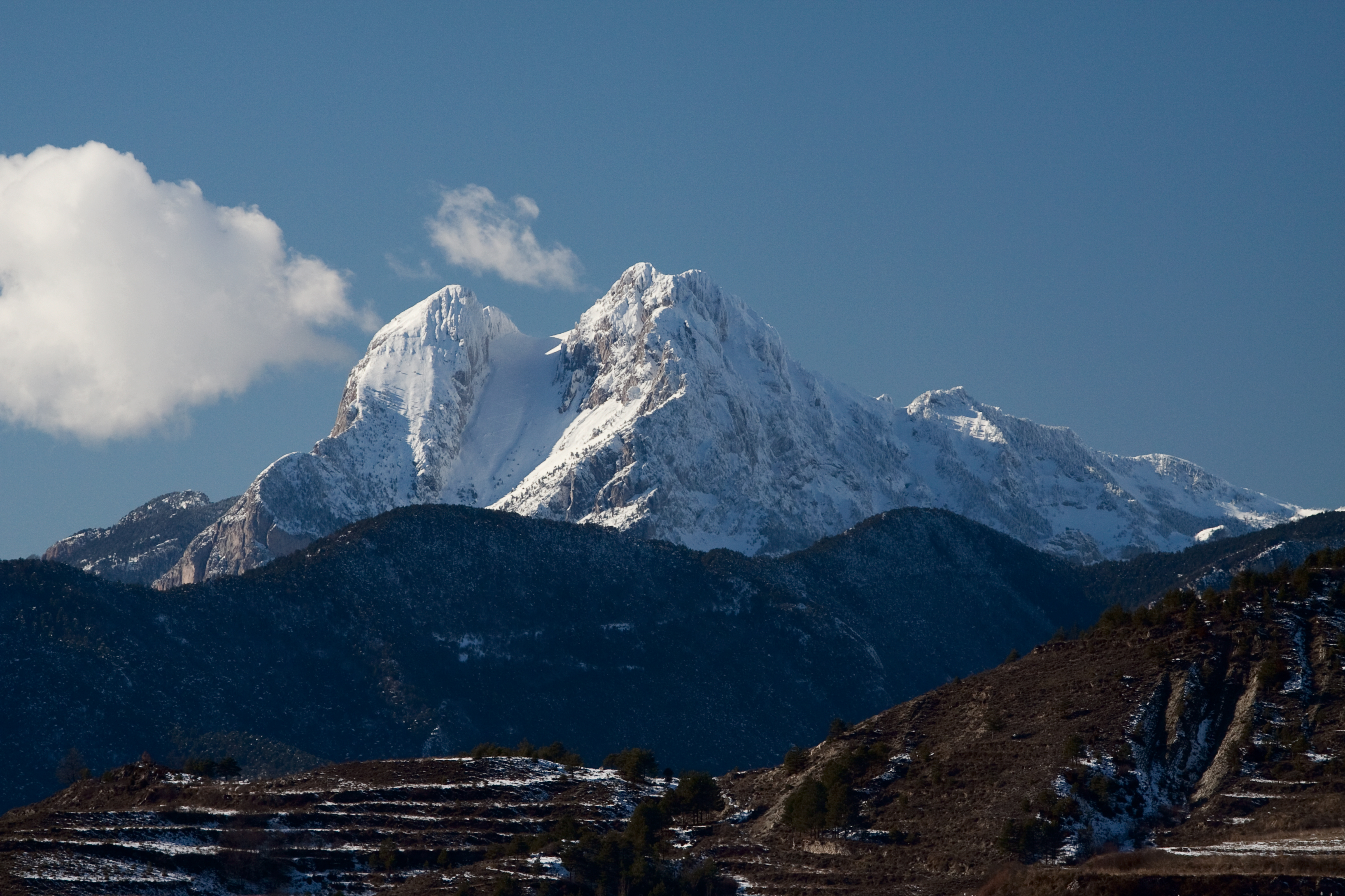 Pedraforca Mountain betwen Gosol and Saldes, Catalonia, Spain